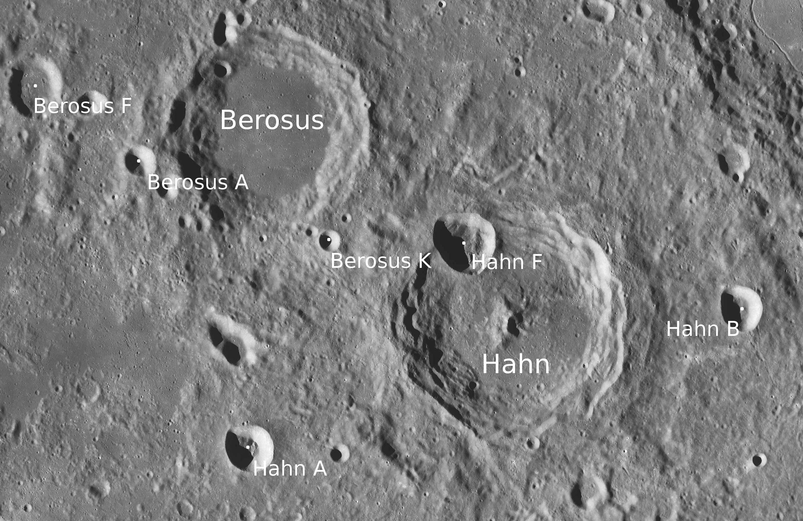 Craters Berosus and Hahn (detail of LRO - WAC global moon mosaic; Mercator projection)